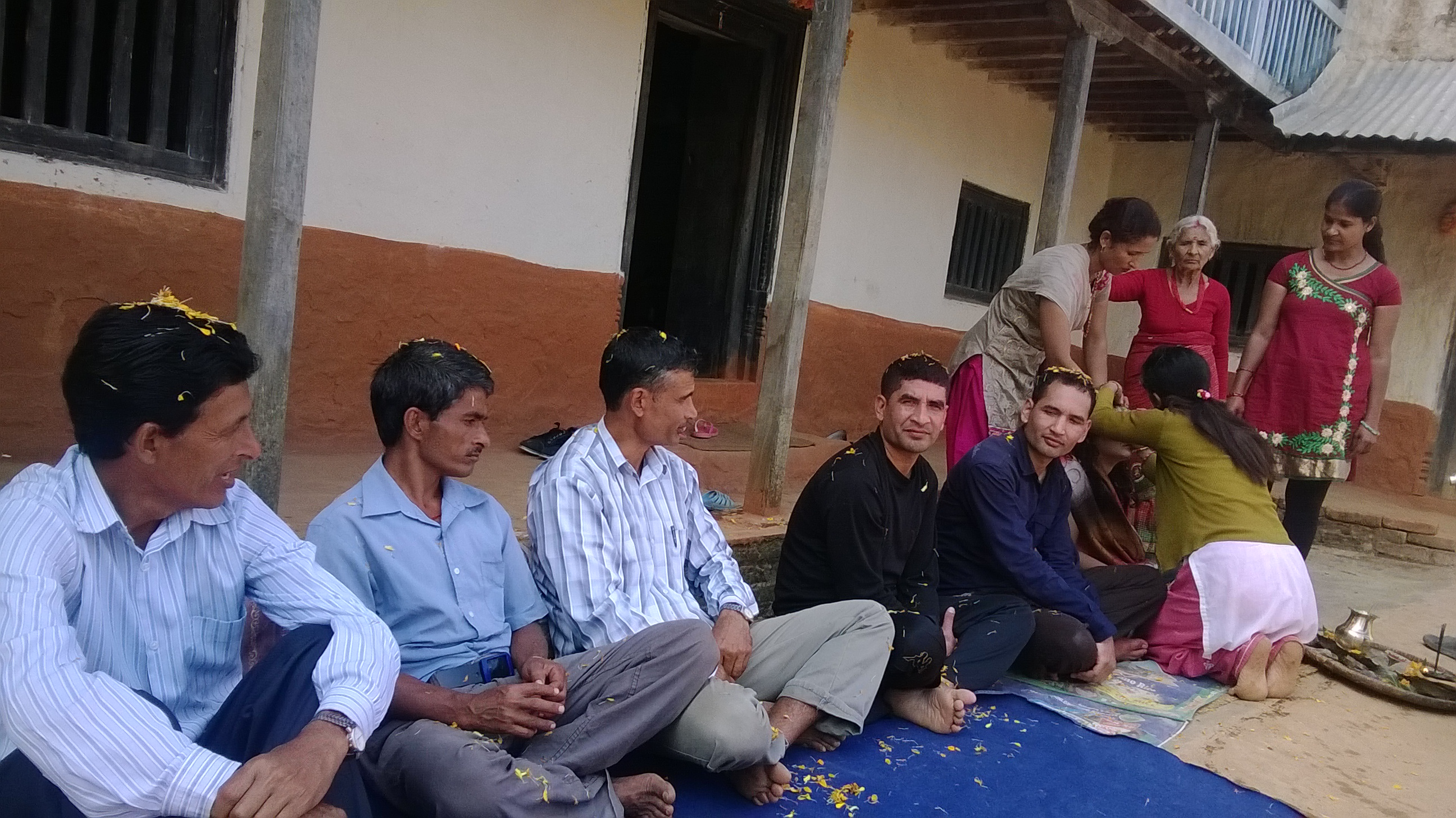 Celebration of bhaitika in Panchkhal Valley.